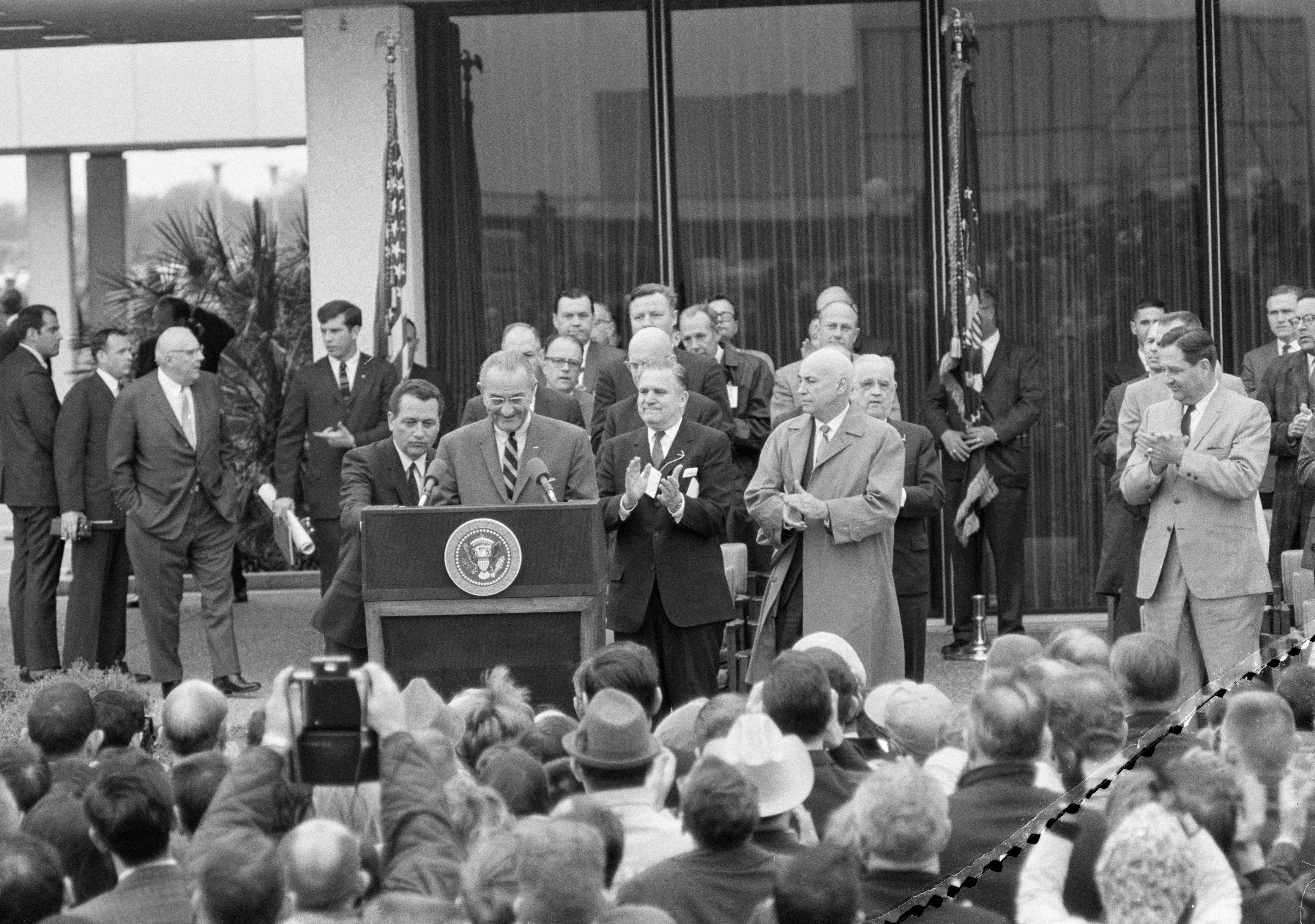 NASA photo of President Johnson announcing the creation of the Lunar Science Institute in 1968. Note: On March 1, 1968, President Lyndon B. Johnson visited NASA’s Manned Spacecraft Center (now the Johnson Space Center, or JSC) in Houston, Texas and announced the Lunar Science Institute, to be managed by the Rice Institute and the National Academy of Science.